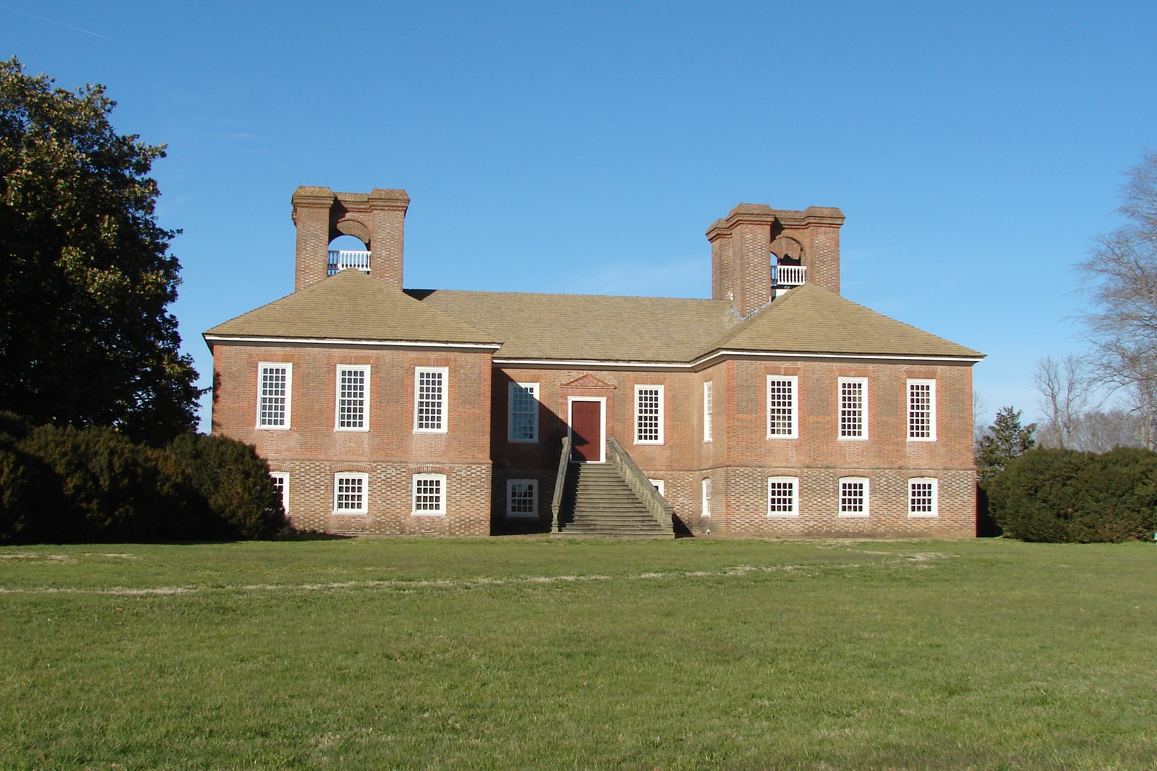 Stratford Hall in 2011